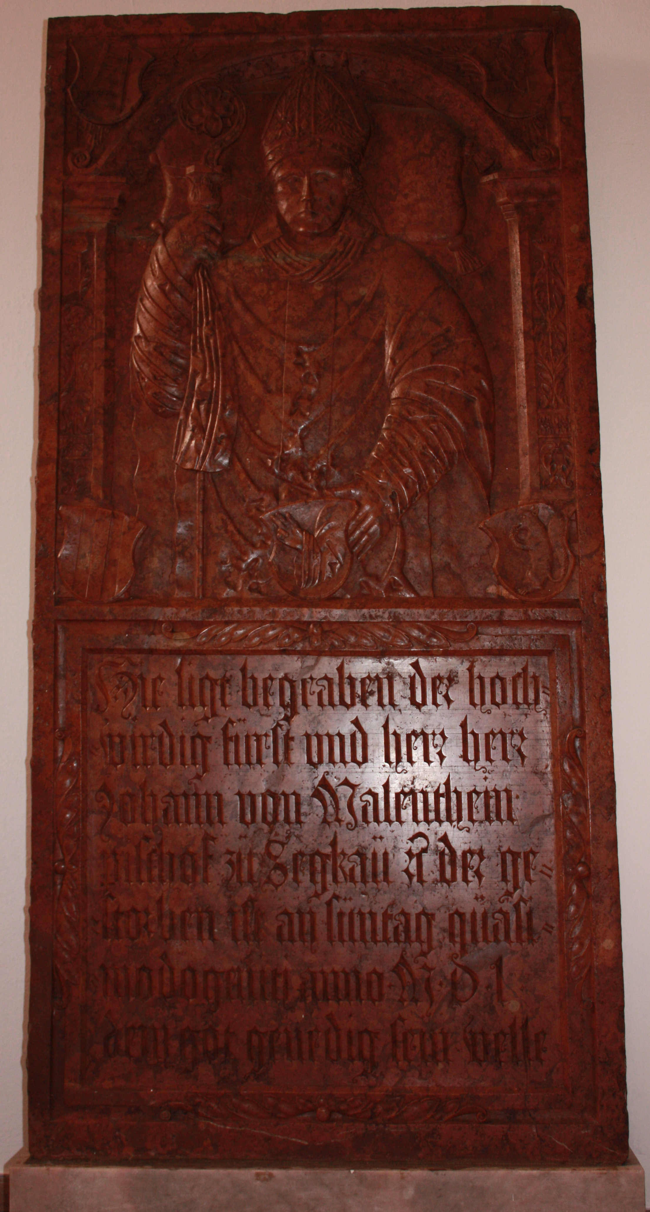 Parish church - Epitaph Locality: Spittal an der Drau Community:Spittal an der Drau